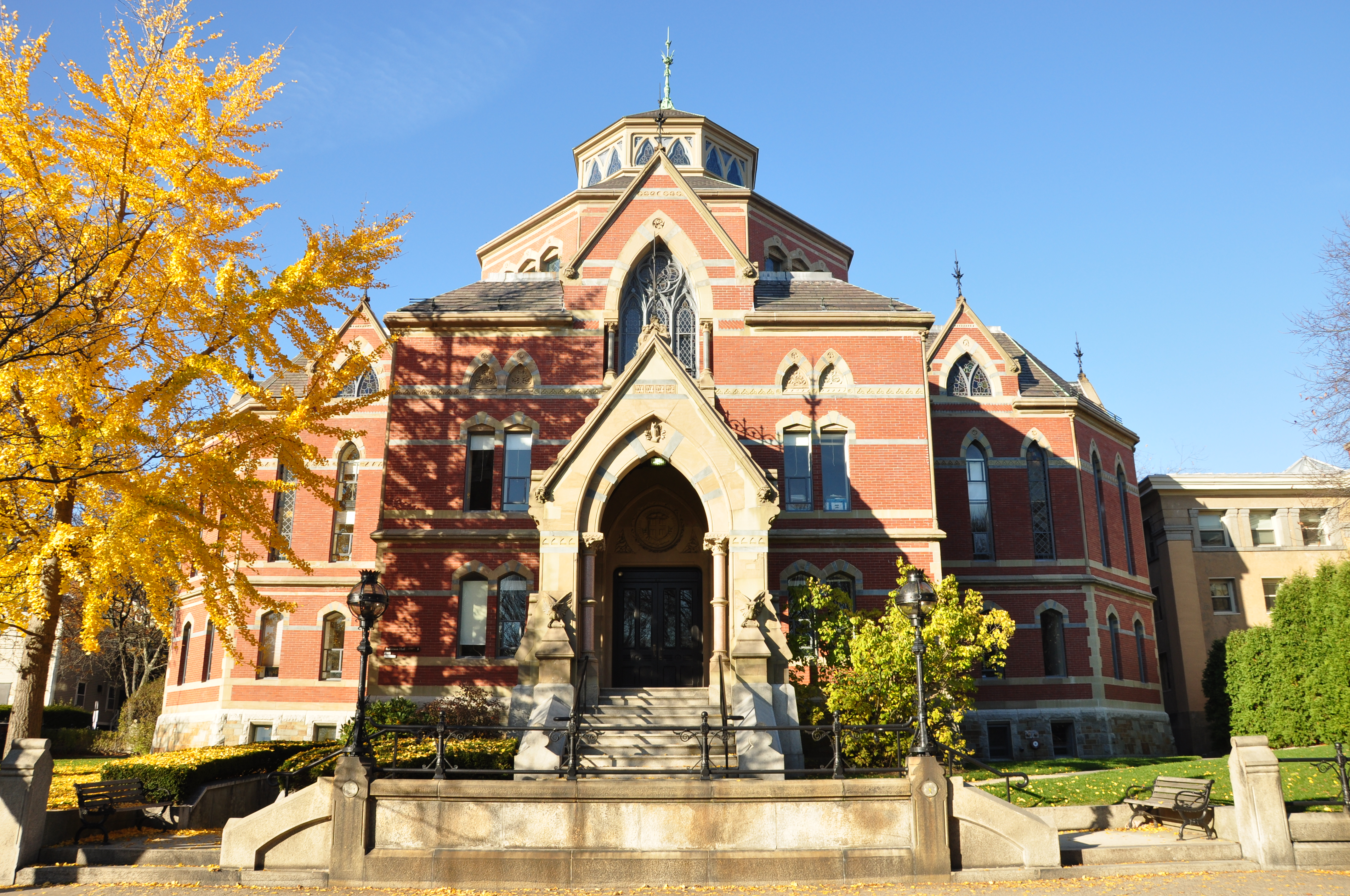 Brown University Robinson Hall 2009 Providence Rhode Island